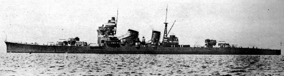 Japanese heavy cruiser Nachi shortly before completition